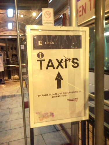 A guerrilla copy editor corrects the grammar mistake in this sign at Leeds City station by crossing out the extraneous apostrophe.